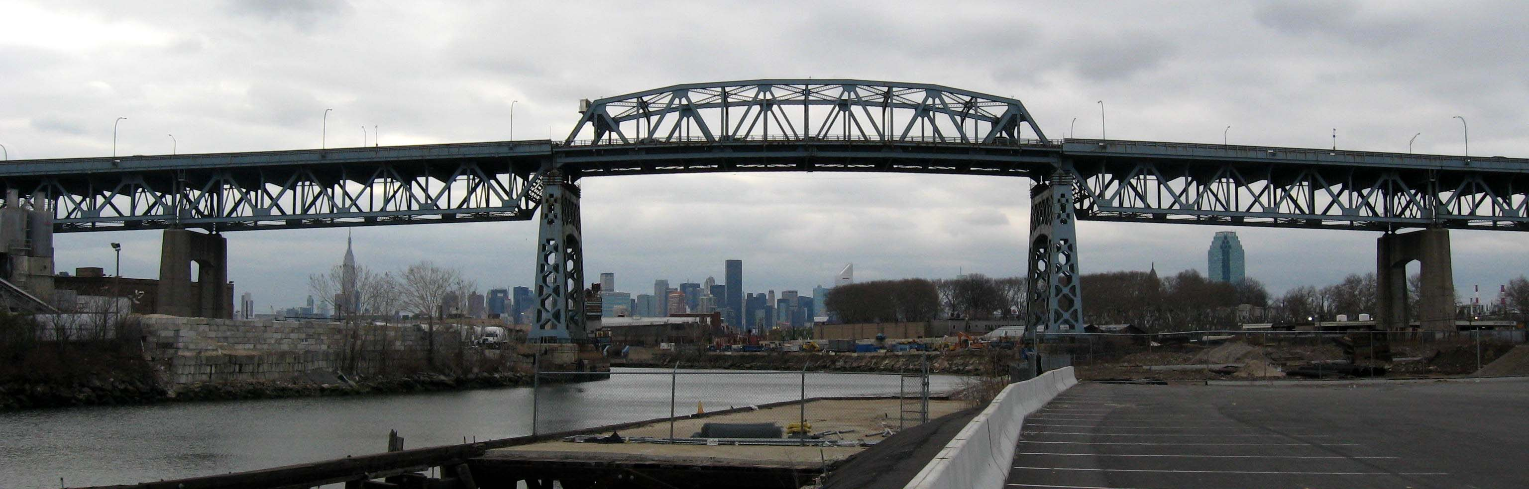 I stood in the parking lot of a restaurant supply store on the right bank of Newtown Creek facing the Kosciuszko Bridge downstream on a cloudy afternoon in early spring.